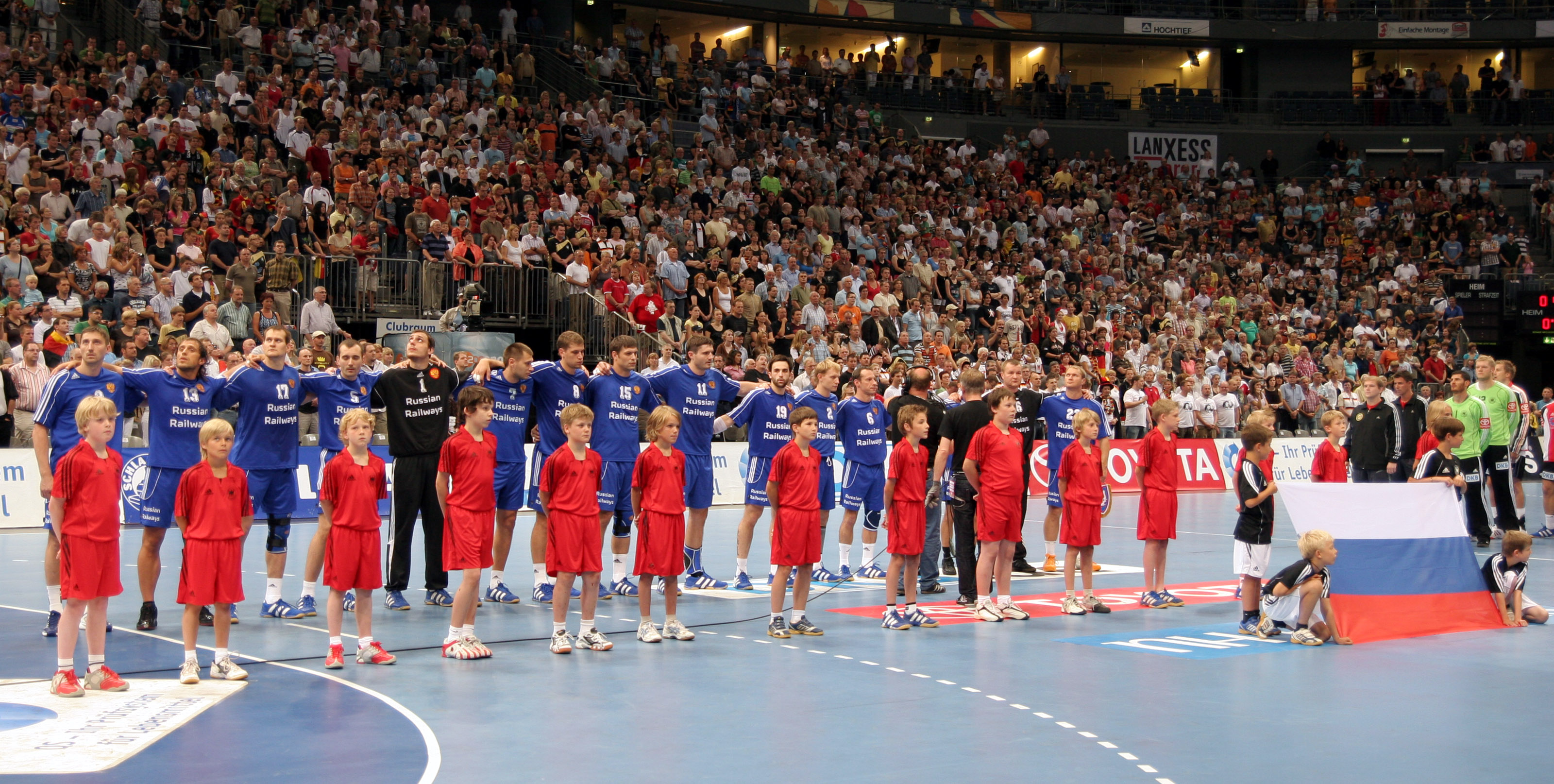 The Russian national handball team prior the cap Germany vers. Russia, on July 26th 2008 in the Lanxess-Arena of Cologne